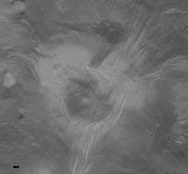 irnini mons on Venus from USGS